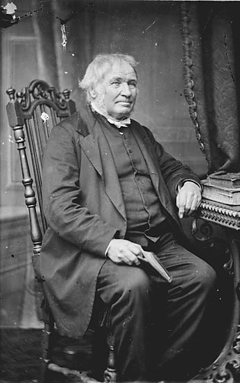 1 negative : glass, wet collodion, b&w ; 11 x 16.5 cm.